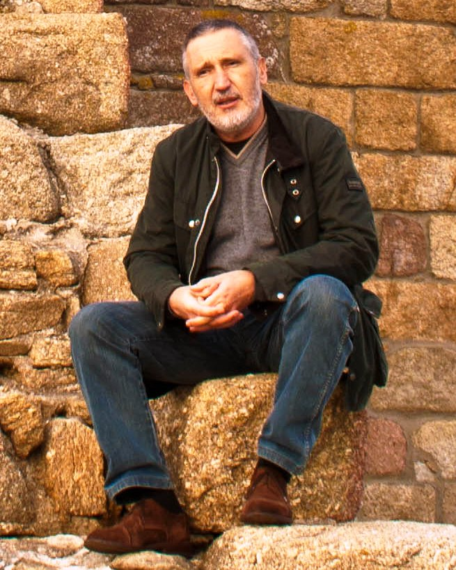 Picture of Victor Caamaño Rivas in Cambados